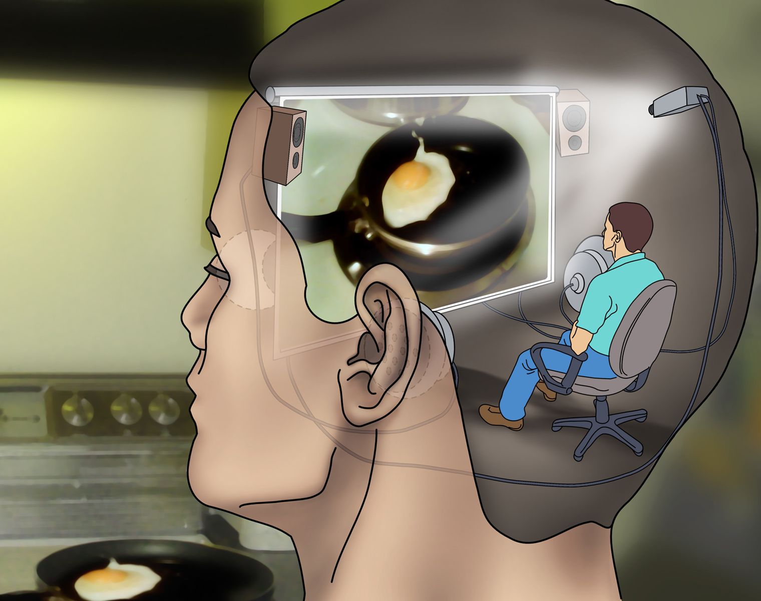 A tiny person sits in a movie theater inside a human head, watching and hearing everything that is being experienced by the human being. An illustration of the Cartesian theater.